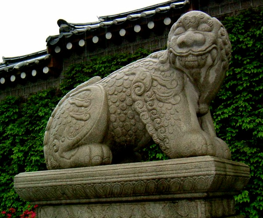 At a Korean Temple